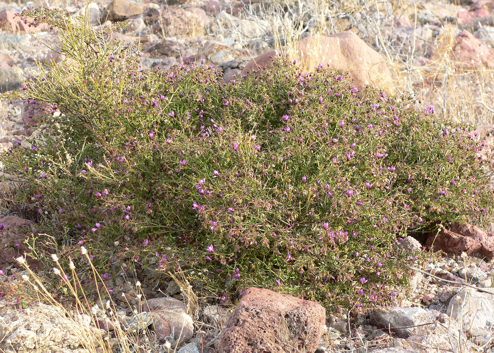 Fagonia laevis near route 178, two miles east of Jubilee Pass, Death Valley National Park